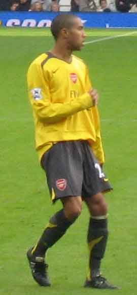 French football (soccer) player Gaël Clichy